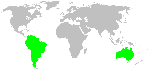 habitat distribution, drawn after Platnick: World Spider Catalog 7.0. This is not a precise rendering of the distribution! If you have better information, please replace this map, or send me the info, so i will redraw it.